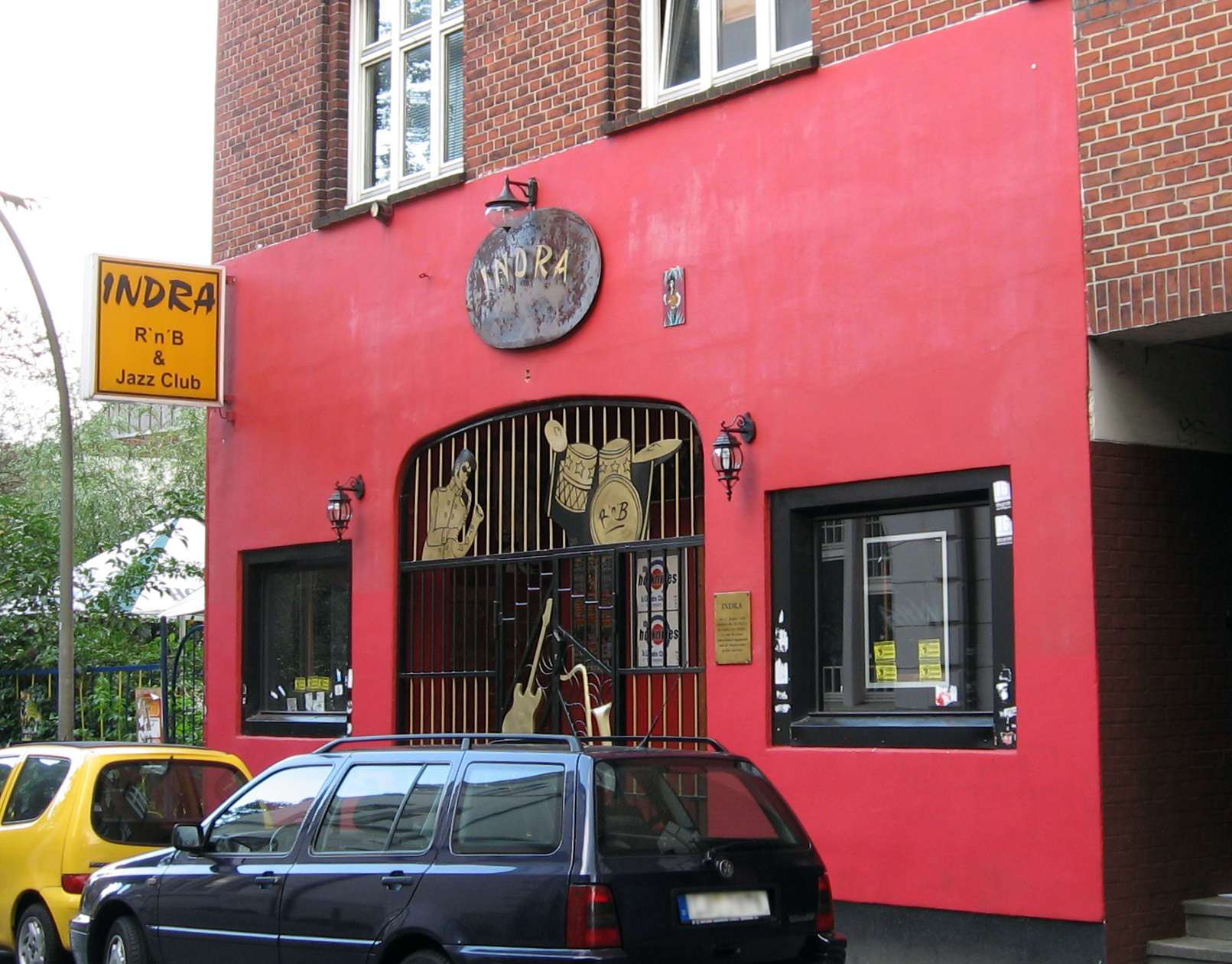 Indra Club on the Grosse Freiheit in Hamburg, Germany